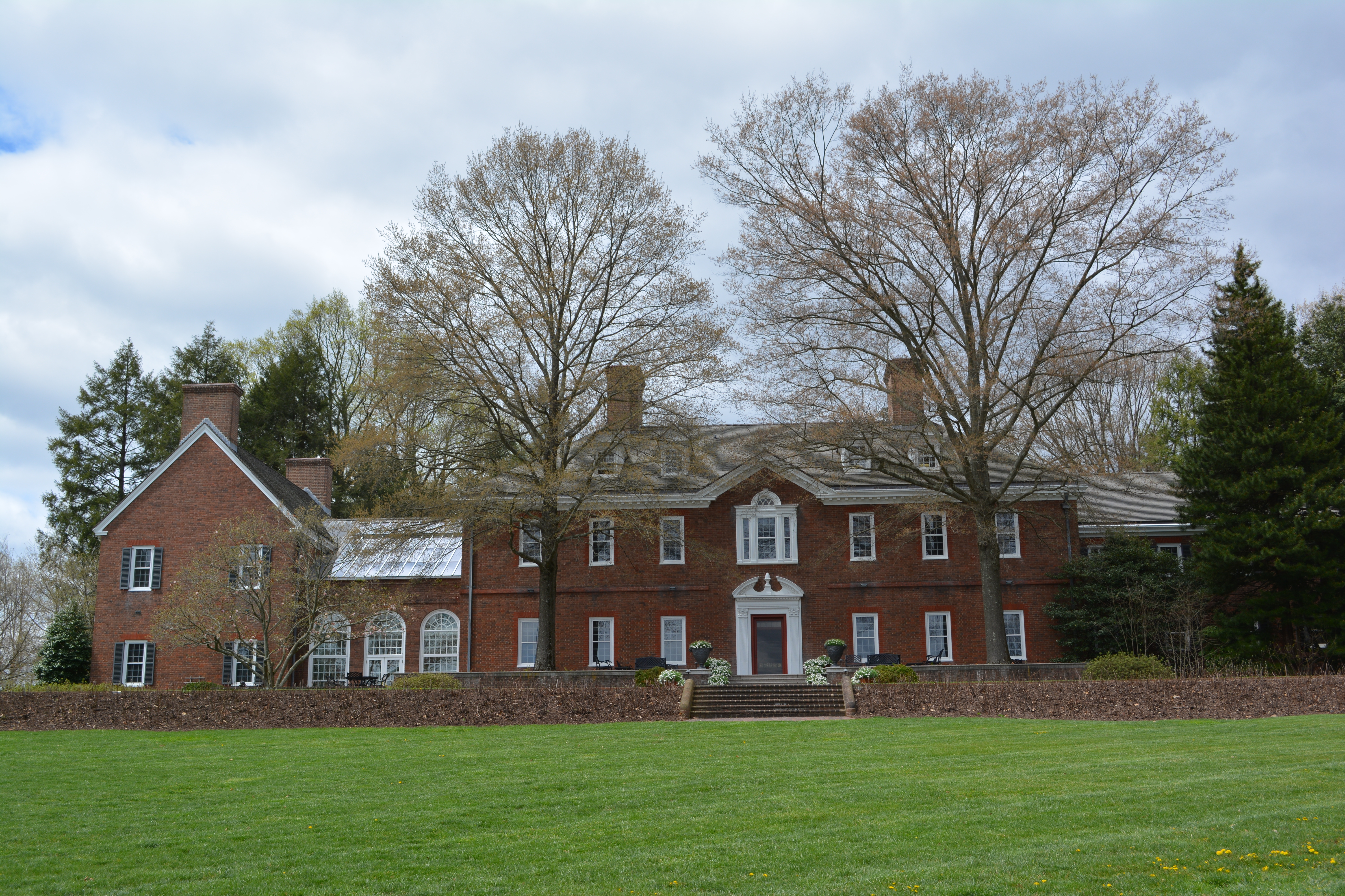 Main house at Mount Cuba , listed on the NRHP on April 2, 2003, at 3120 Barley Mill Rd., Greenville (or Mt. Cuba), New Castle County, Delaware. Formerly owned by a DuPont, now a nature/garden center/arboretum